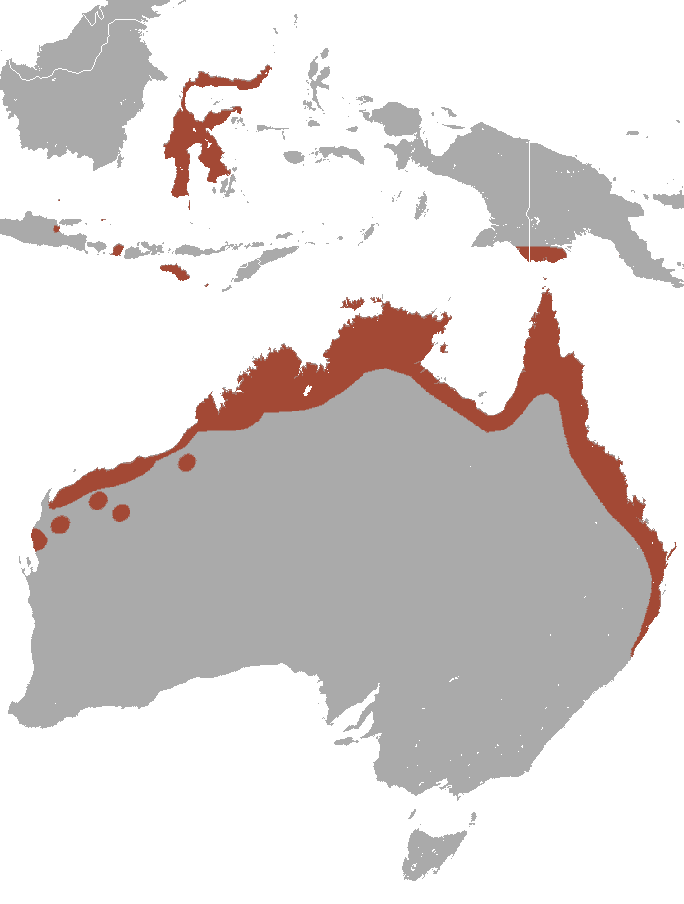 Black Flying Fox (Pteropus alecto) range